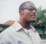 Photograph taken and provided by author. Professional wrestler, commentator and manager Bryan J. Kelly, aka Byron Saxton